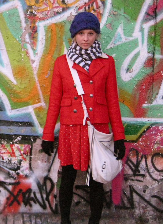 American actress and singer Candice Accola.